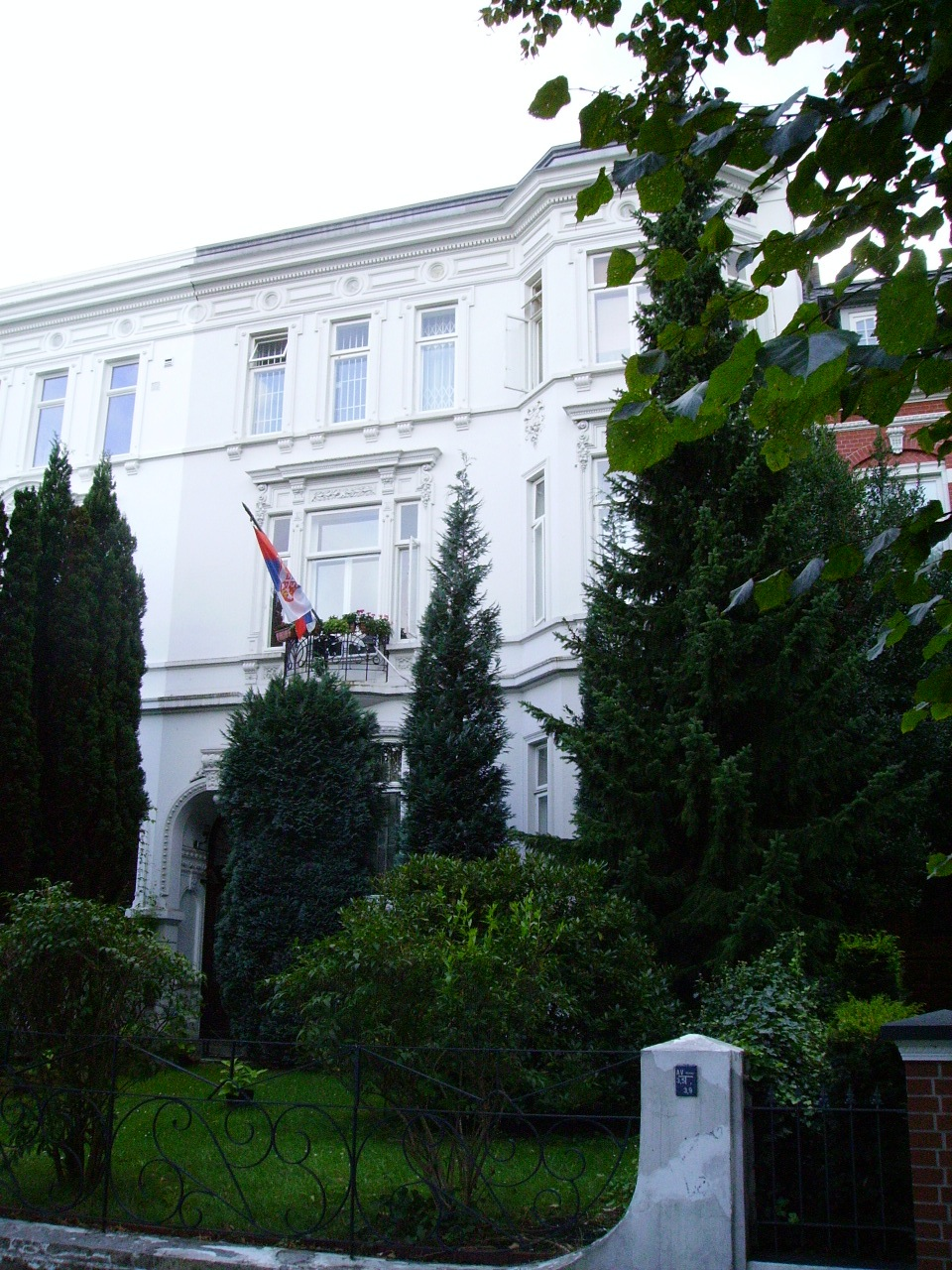 Serbian consulate-general in Hamburg, Harvesterhuder Web #101